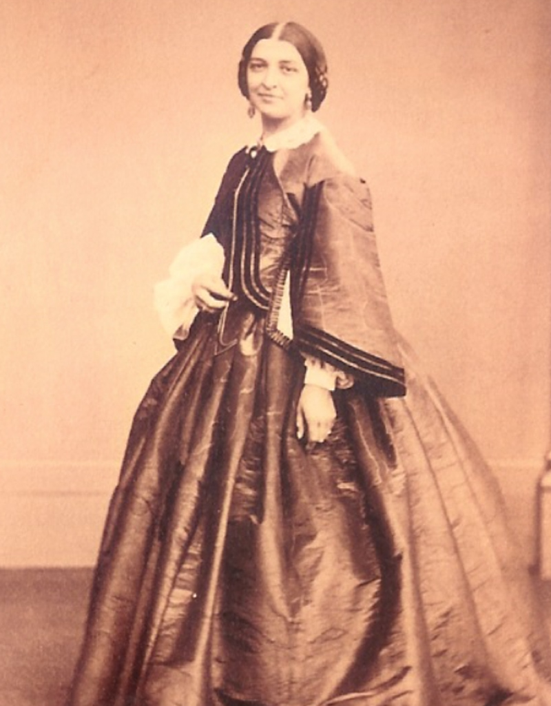 Marian Vink, resident of Belstead Lodge, Ipswich, Suffolk